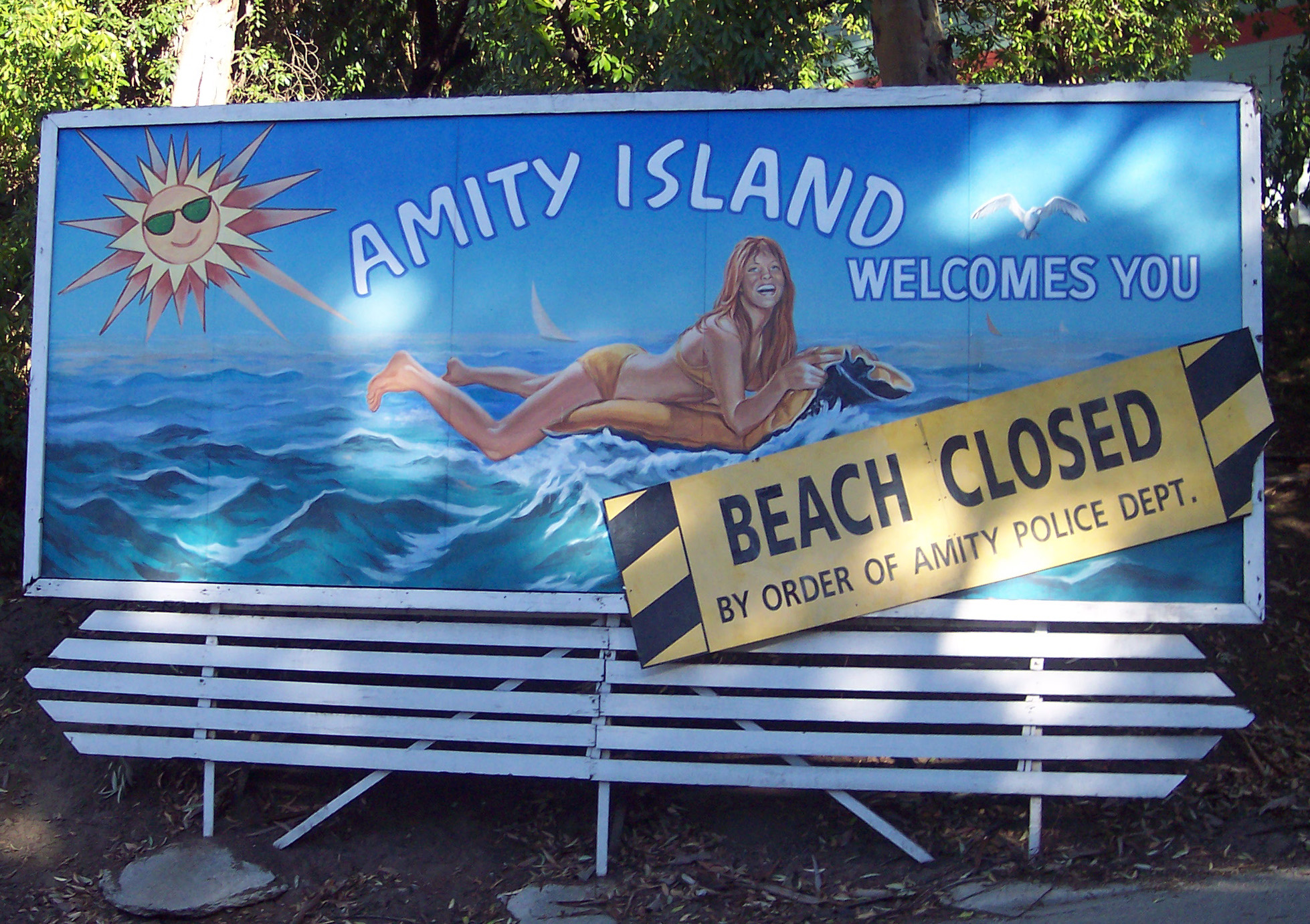 Universal Studios Hollywood